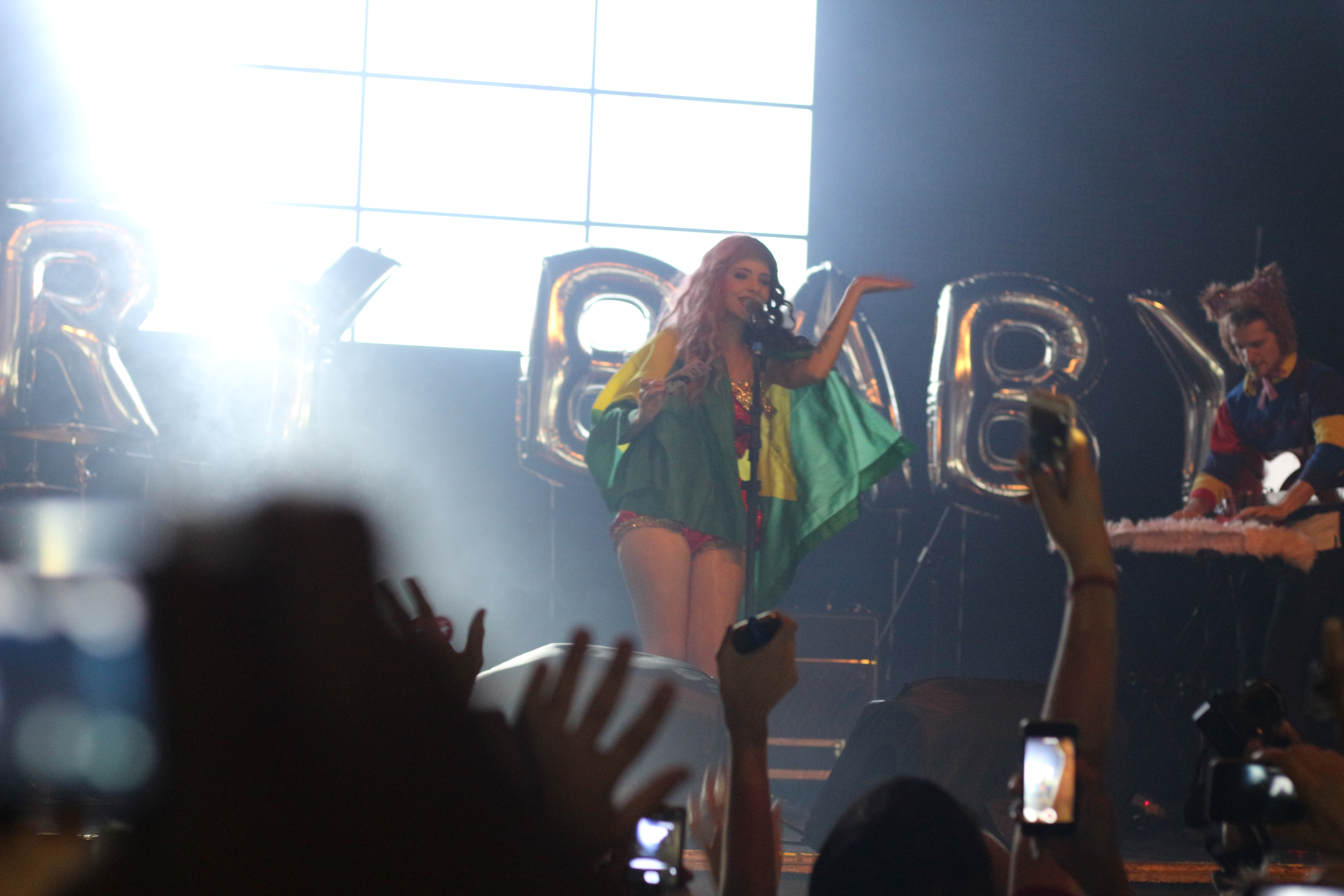 Melanie Martinez in Carioca Club, localized in São Paulo, SP.